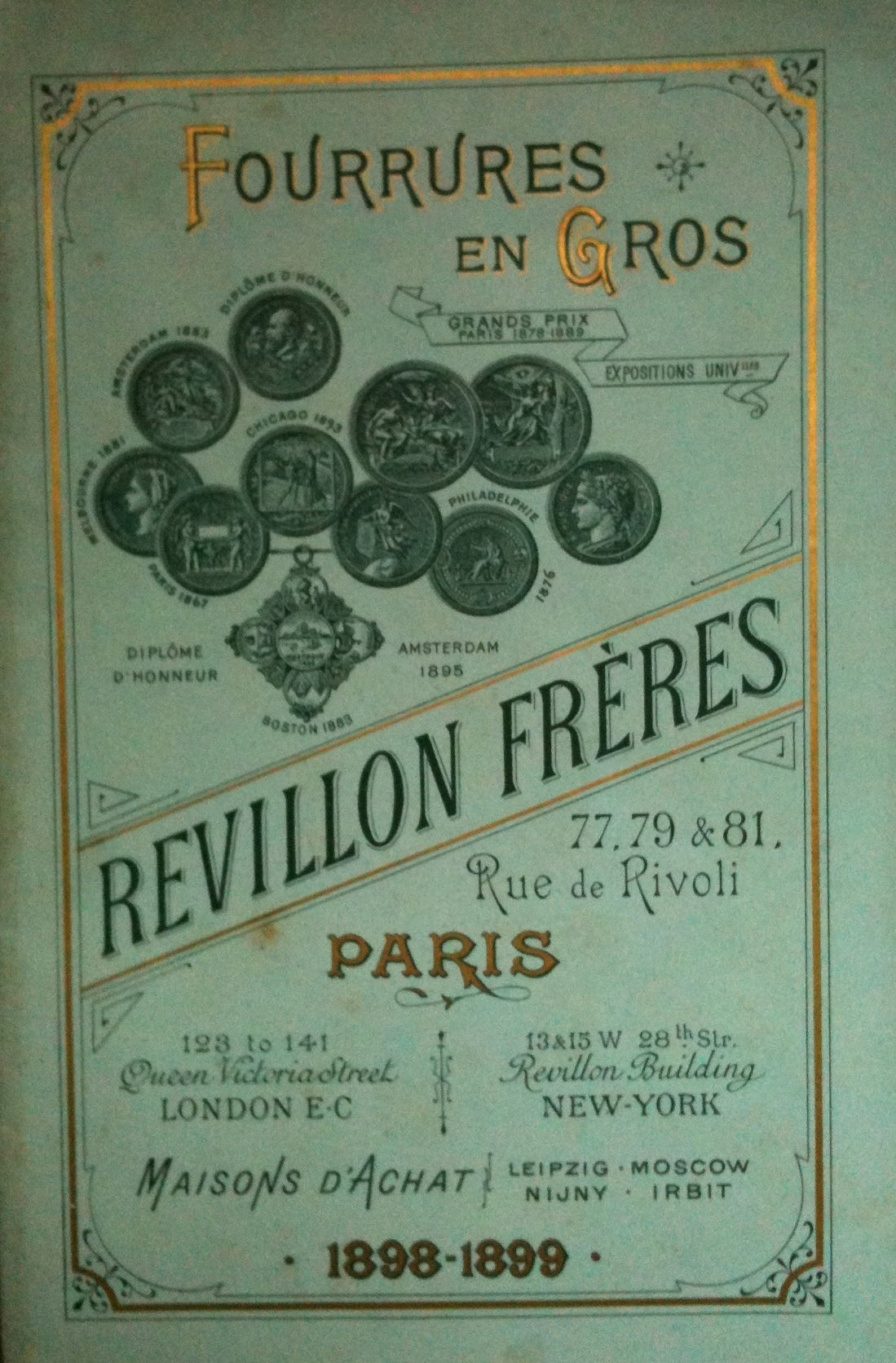 Front page of Revillon Frères Catalogue 1898-1899, in french, furs and items at different prices. Printed in Paris (France).